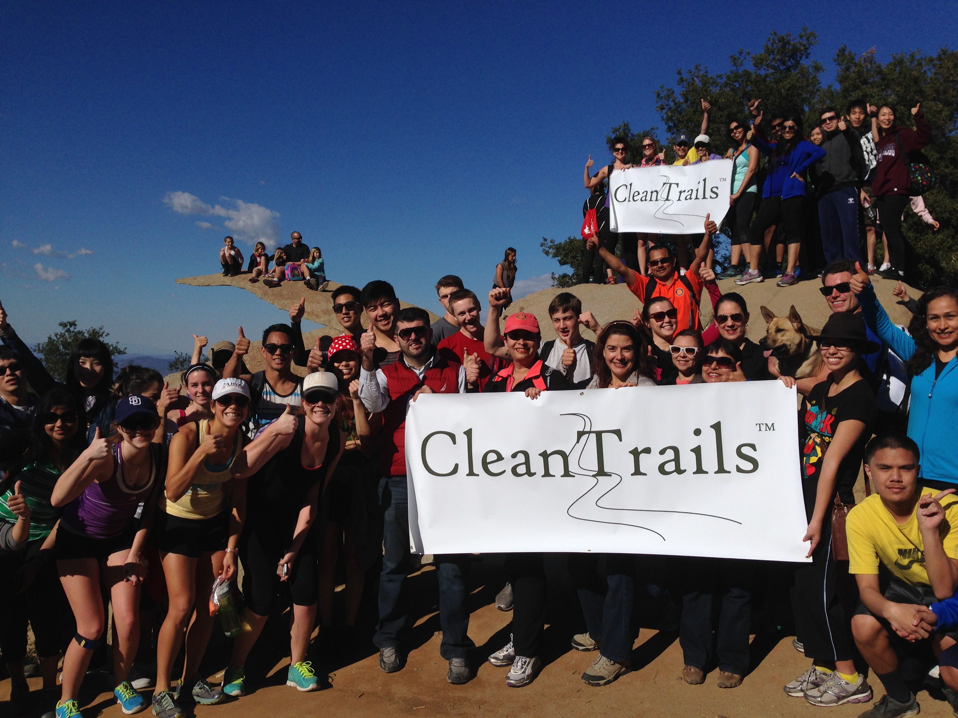 Volunteer cleanup on Mount Woodson for Clean Trails. Picture is at Potato Chip Rock. Clean Trails is hosting organization.